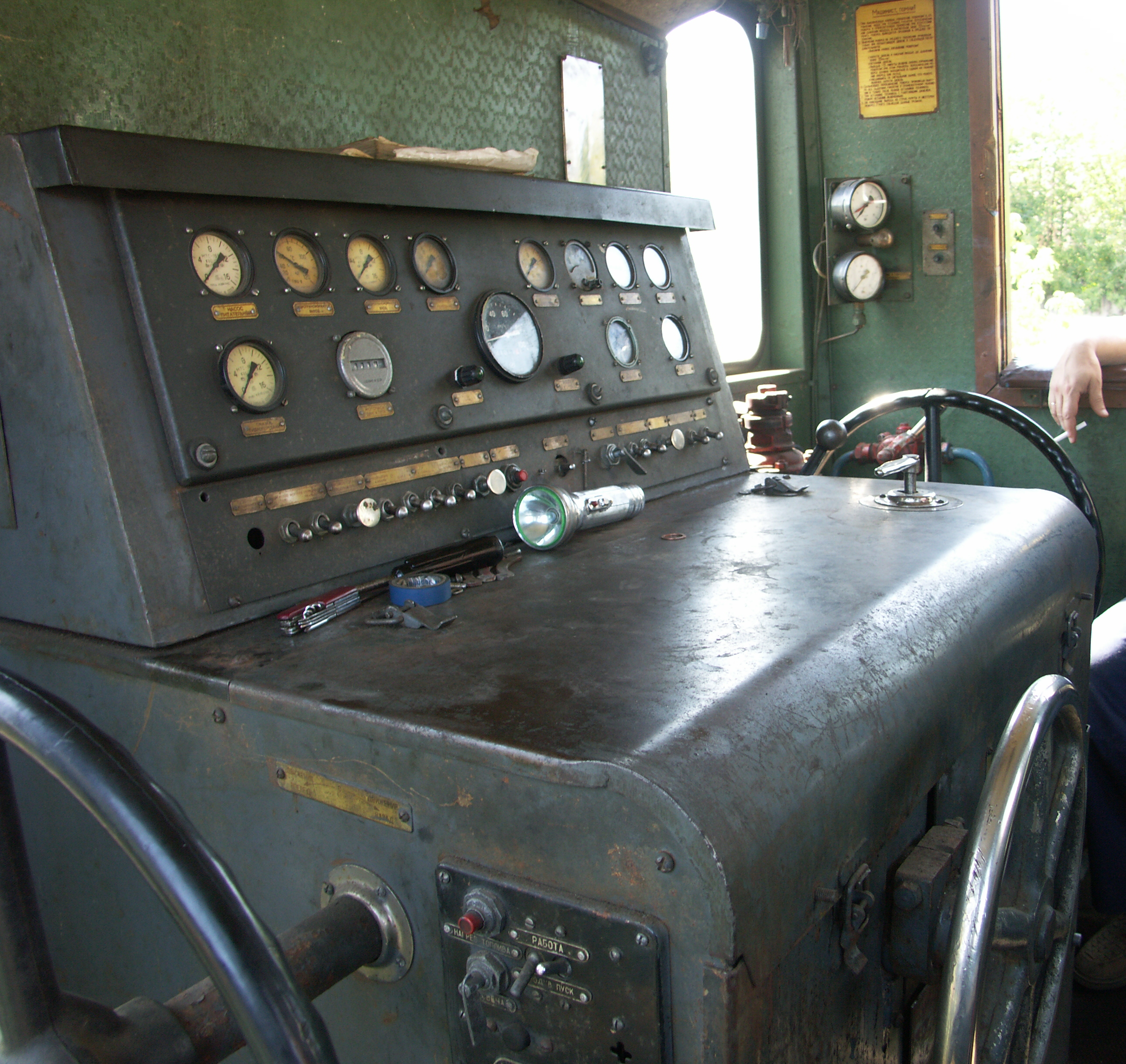 The dashboard of the locomotive TGK-2